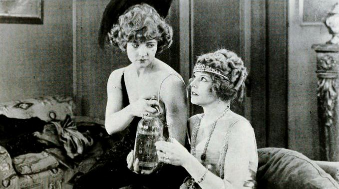 Still from the American drama film The Law and the Woman (1922) with Betty Compson and Cleo Ridgely, on page 217 of Peter Milne, Motion Picture Directing; The Facts and Theories of the Newest Art (1922).